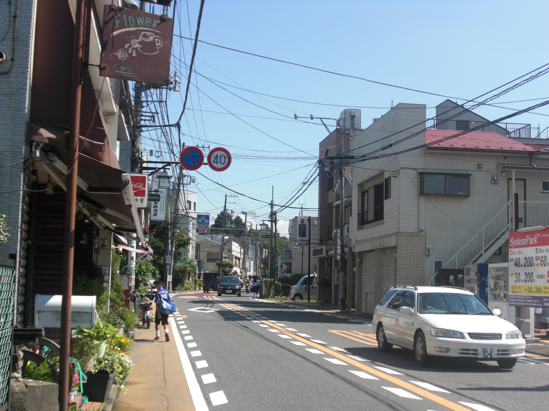 This is a landscape of Yamanouchi, Kamakura, Kanagawa, Japan.